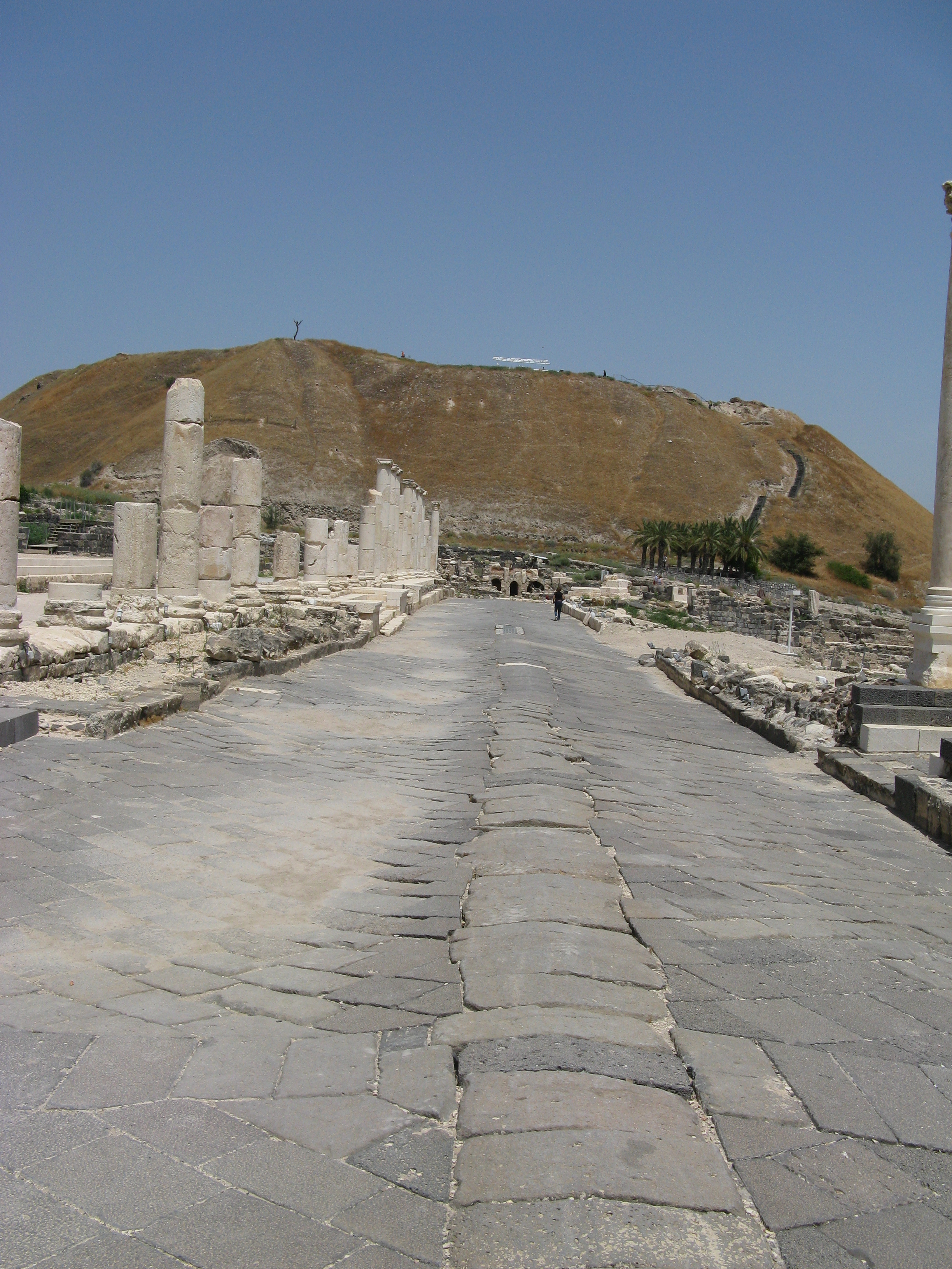 Scythopolis. Cardo (Paladius) street